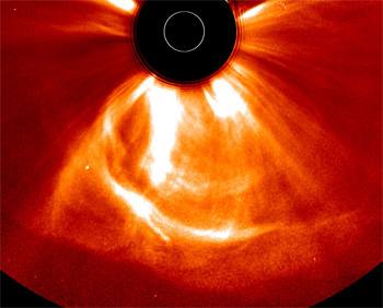 CME of 23 July 2012 (Solar storm of 2012). Caption: This image captured on July 23, 2012, at 12:24 a.m. EDT, shows a coronal mass ejection that left the sun at the unusually fast speeds of over 1,800 miles per second. (Image credit: NASA/STEREO)